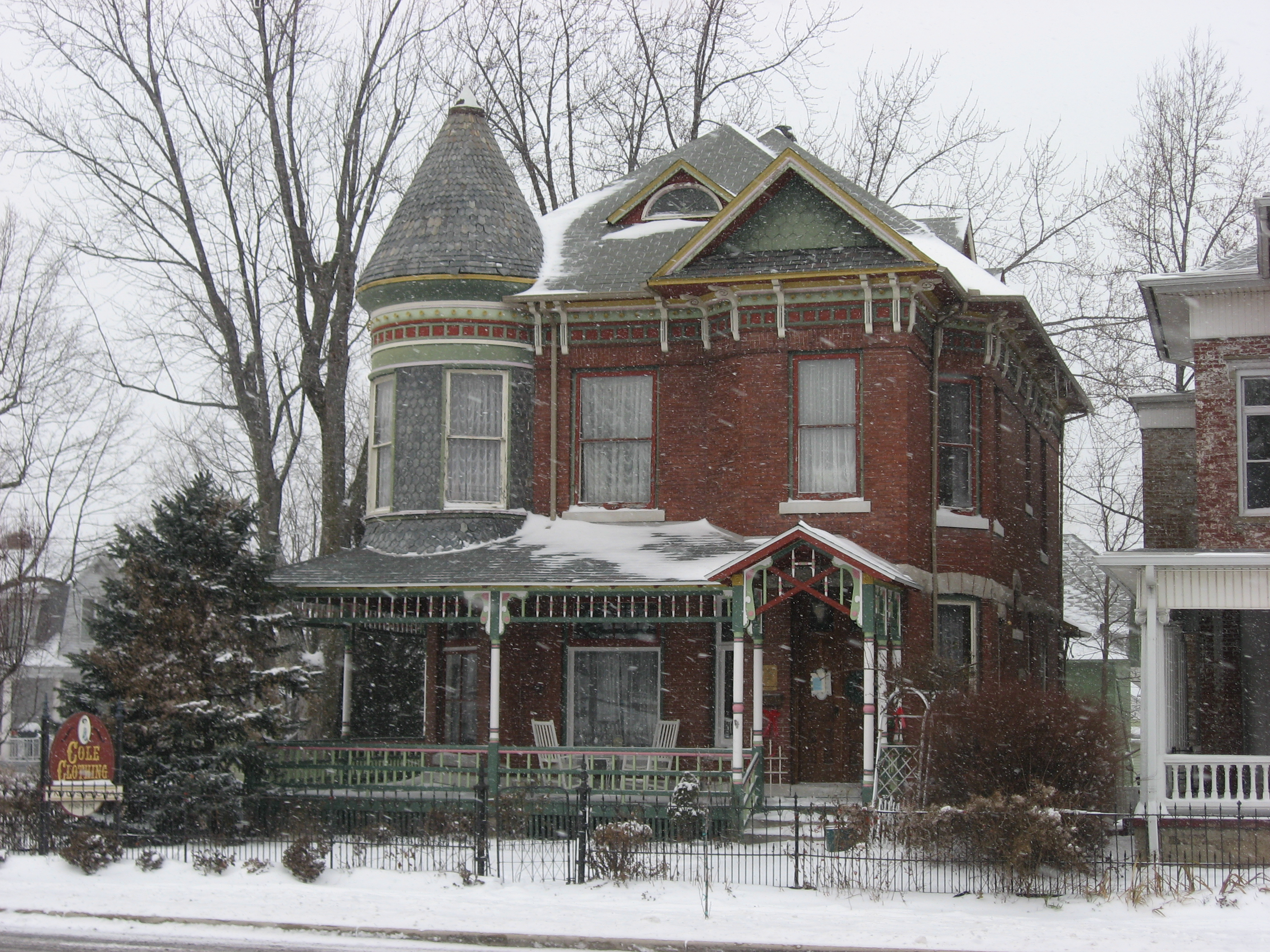 Front and eastern side of the Willard B. Place House, located at 900 E. Broadway in Logansport, Indiana, United States. Built in 1889 and since converted into the Cole Clothing Museum, it is listed on the National Register of Historic Places.